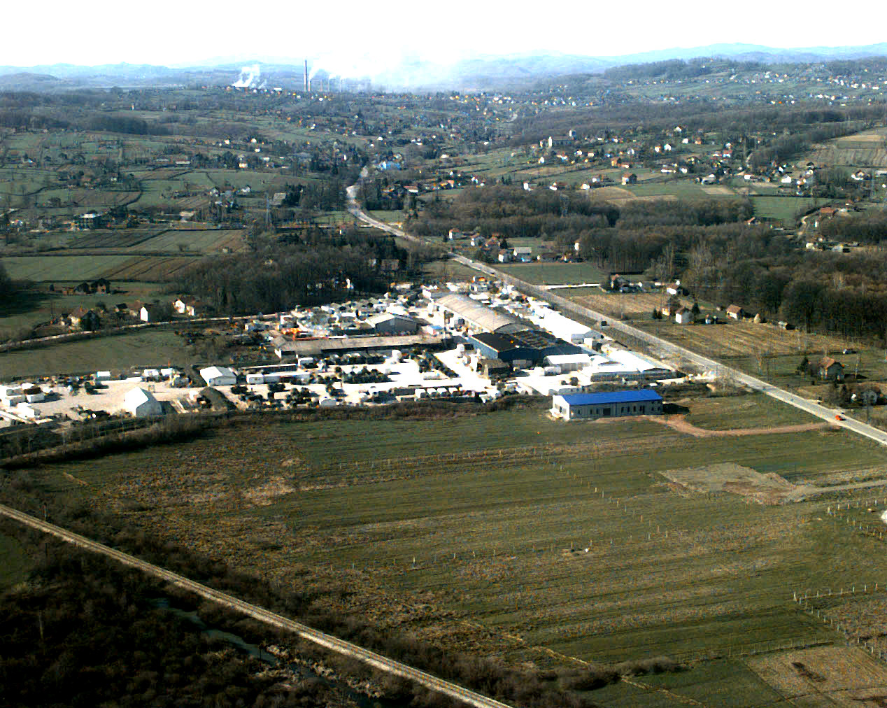 Aerial view of Camp Oden, Bosnia-Herzegovina, Swedish Battallion headquarters, Operation JOINT GUARD, 18 April 1997.